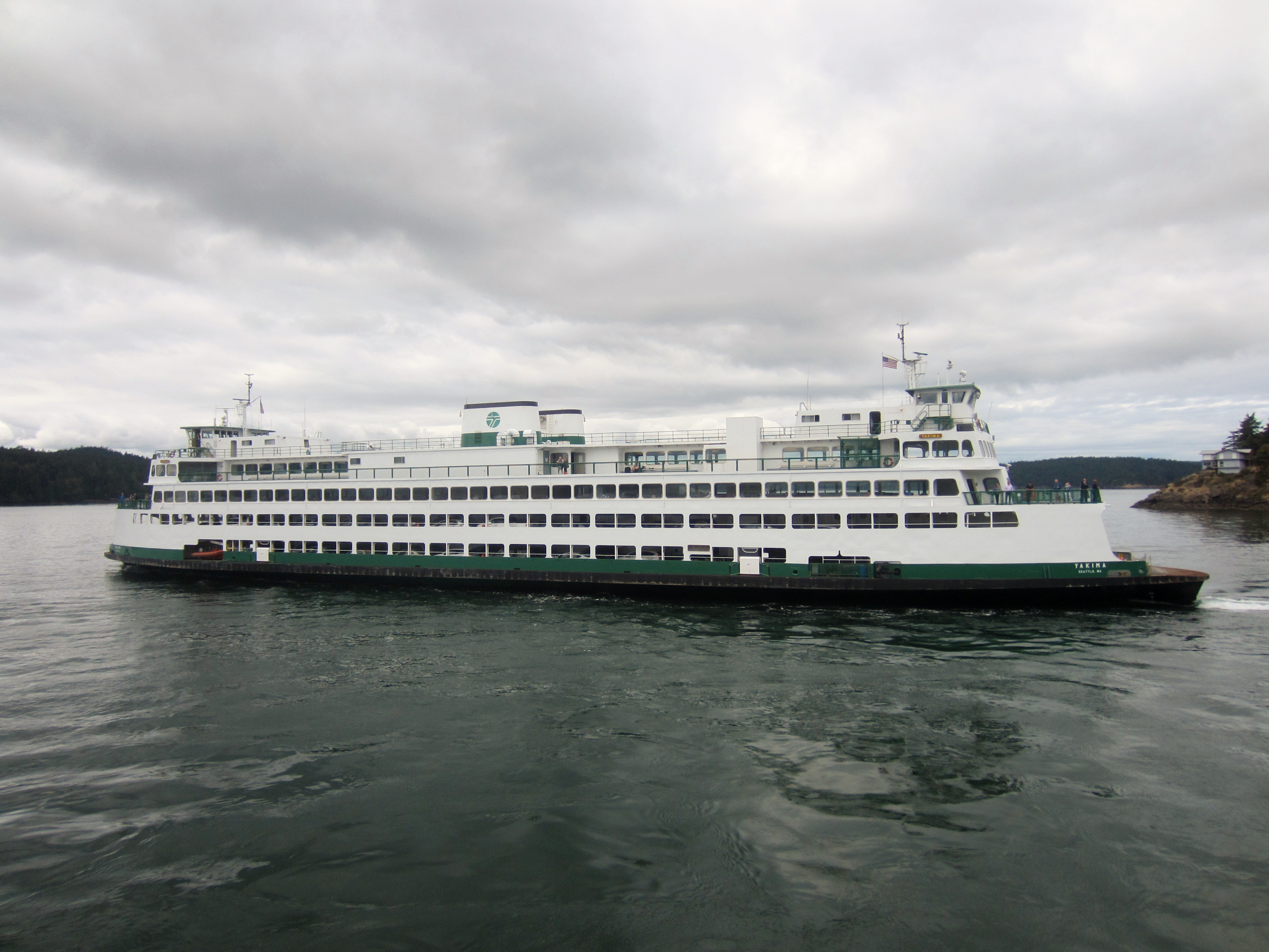 Departing Orcas Island. Taken from the M/V Klahowya. July 2016.